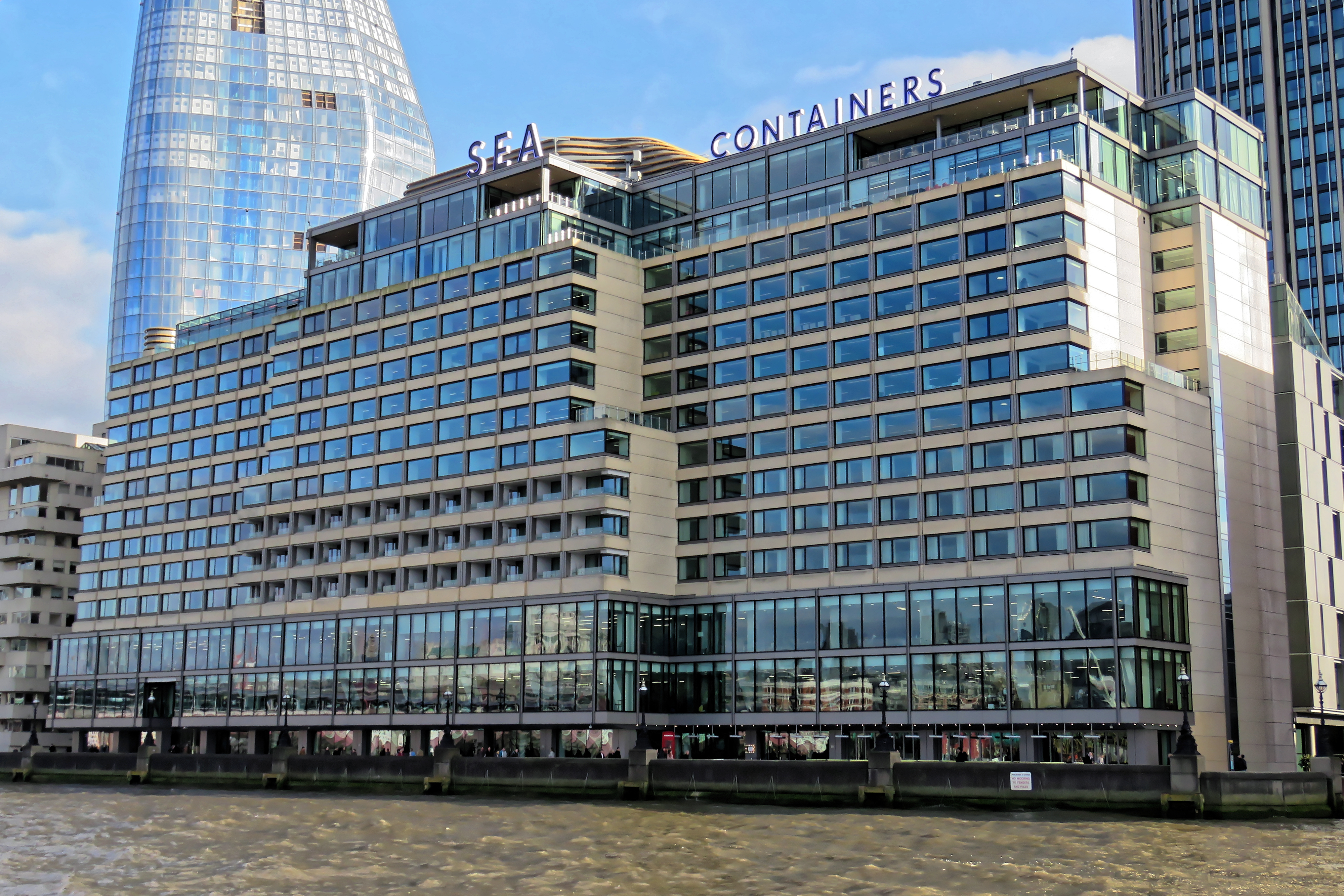 Sea Containers building, previously Sea Containers House, from the River Thames at the northwest.Camera: Canon PowerShot SX60 HS.Software: file lens-corrected and optimized with DxO PhotoLab Elite and Viewpoint 3, and further optimized with Adobe Photoshop CS2.